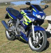 2002 Suzuki FXR150 Motorcycle. Taken by Warren Stuart and licensed under GFDL